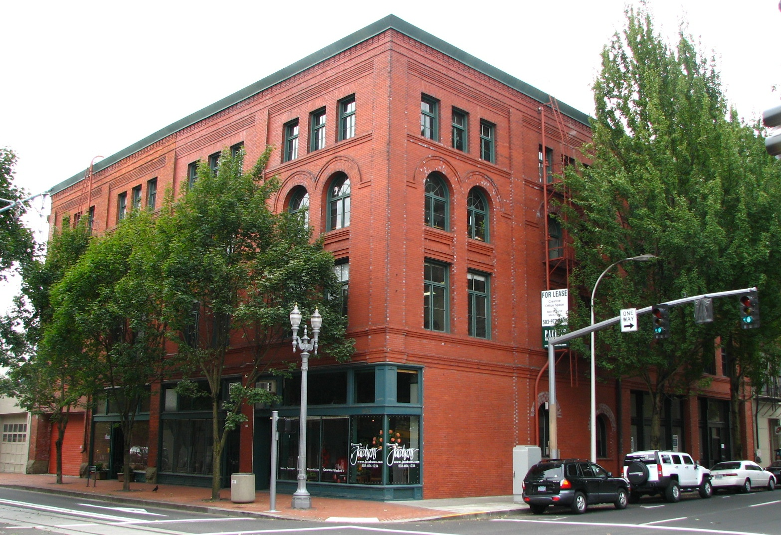 The historic Oregon Cracker Company Building (built 1897), located at 616 Northwest Glisan Street in Portland, Oregon, United States, is listed on the US National Register of Historic Places.